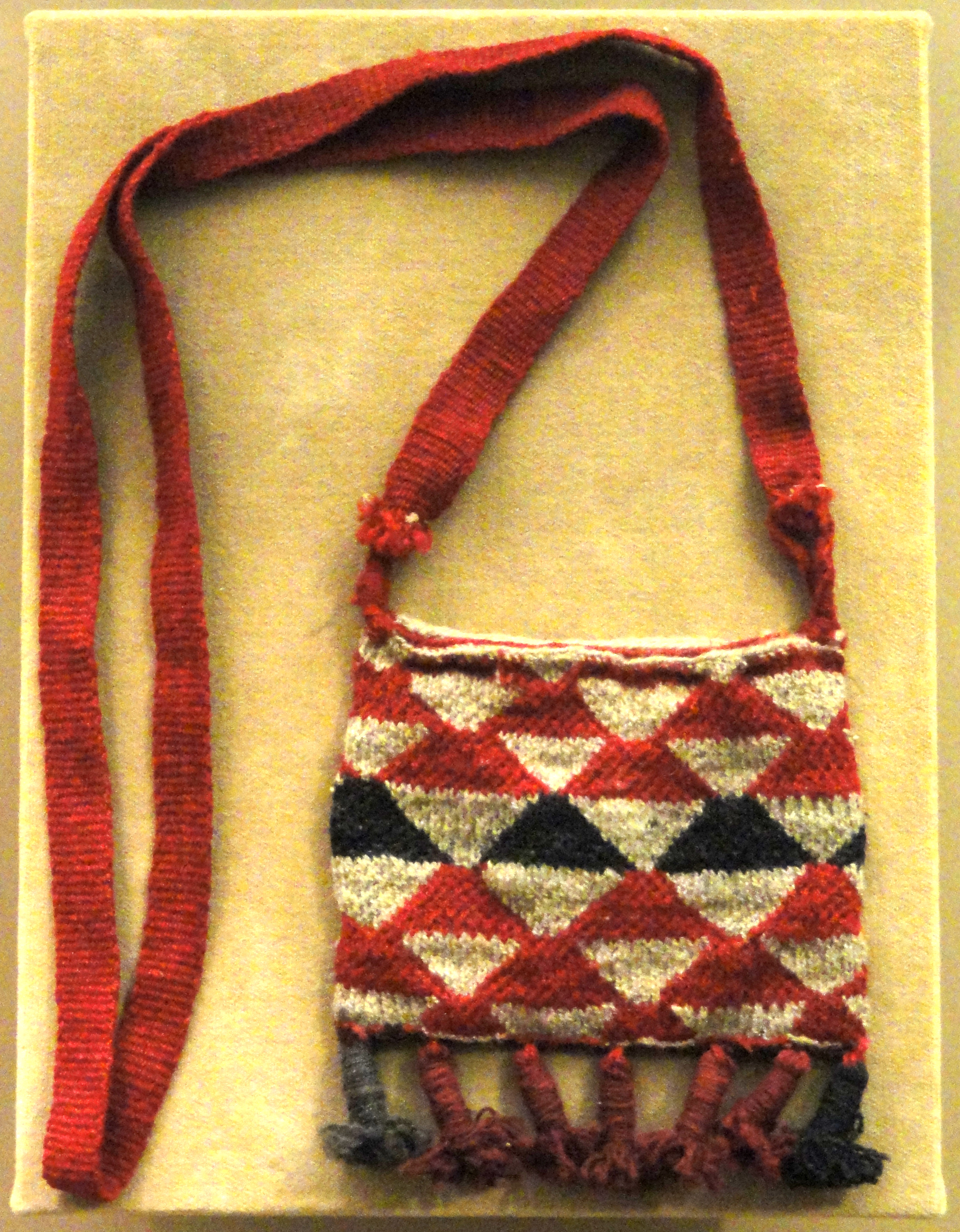 Exhibit in the South American collection of the American Museum of Natural History, Manhattan, New York City, New York, USA.